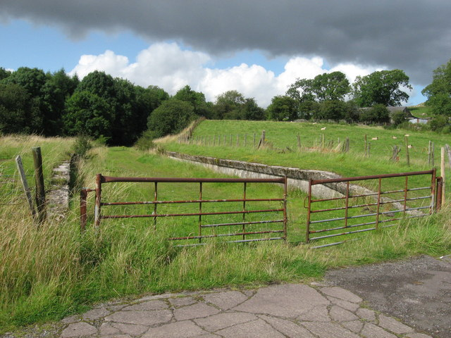 Pant Station The platforms of the former station at Pant on the Brecon to Newport railway. The Brecon Mountain Railway's new terminus at Pant is a short walk away.